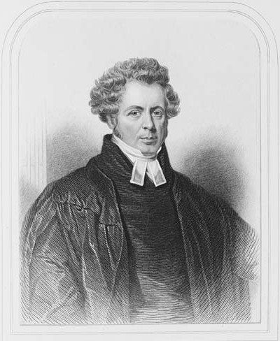 Portrait of Andrew Mitchell Thomson (1779–1831), minister of the Church of Scotland.